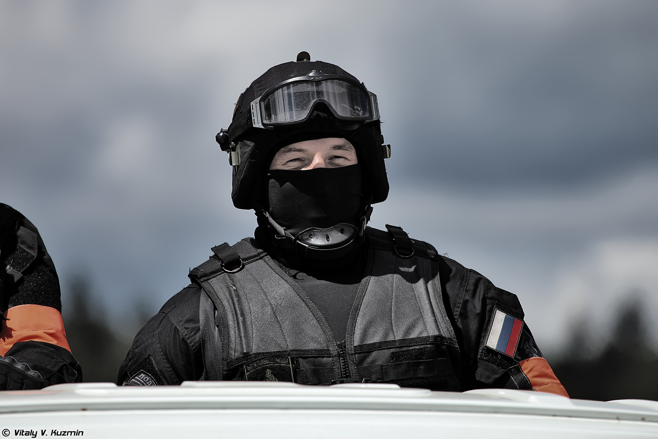 Moscow SOBR showed hostage rescue actions